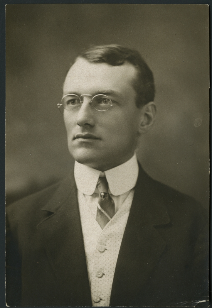 Albert Leon Guerard, Rice Institute professor, circa 1920